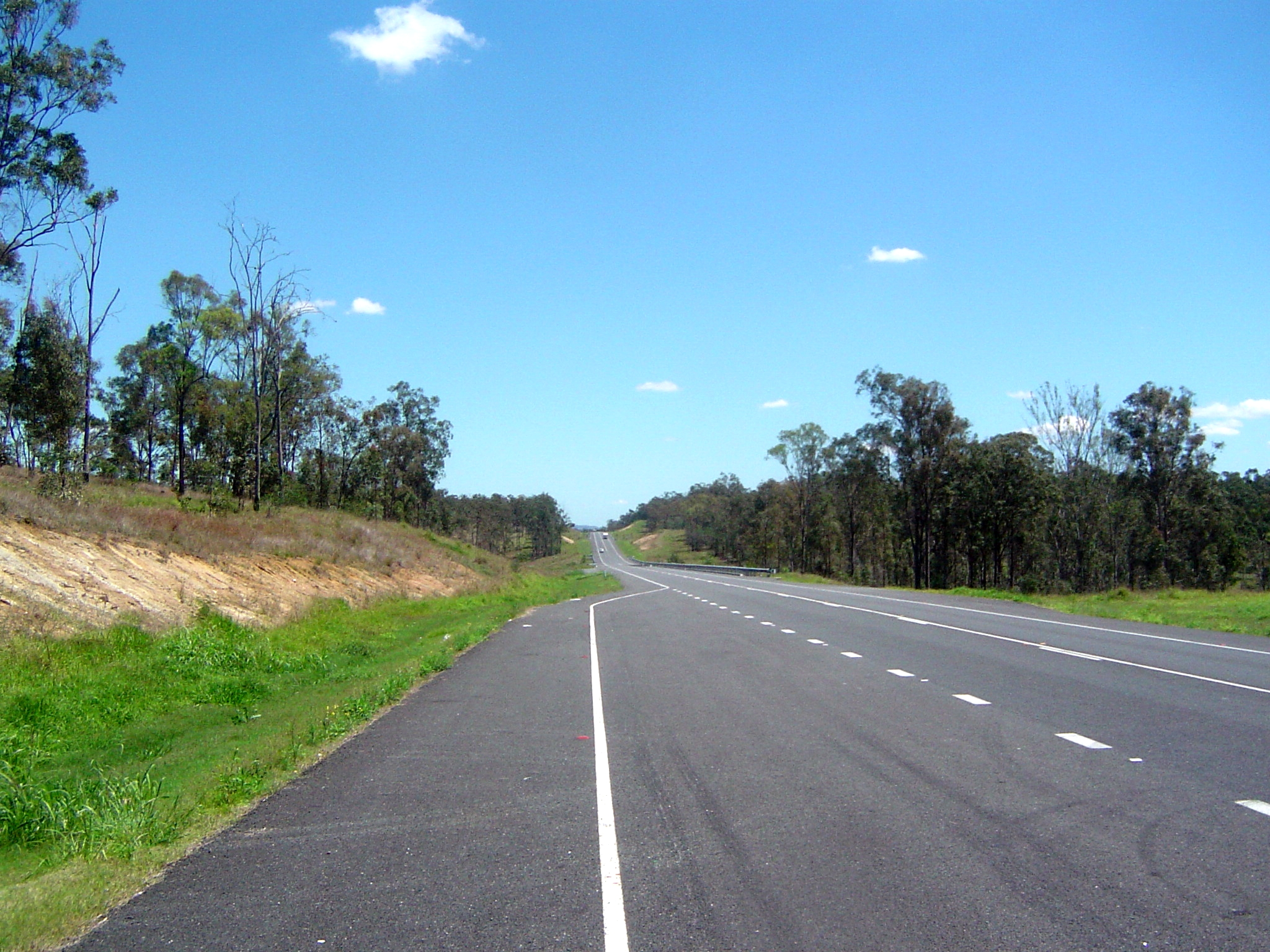 Photo of Centenary Motorway at South Ripley in Ipswich, Queensland